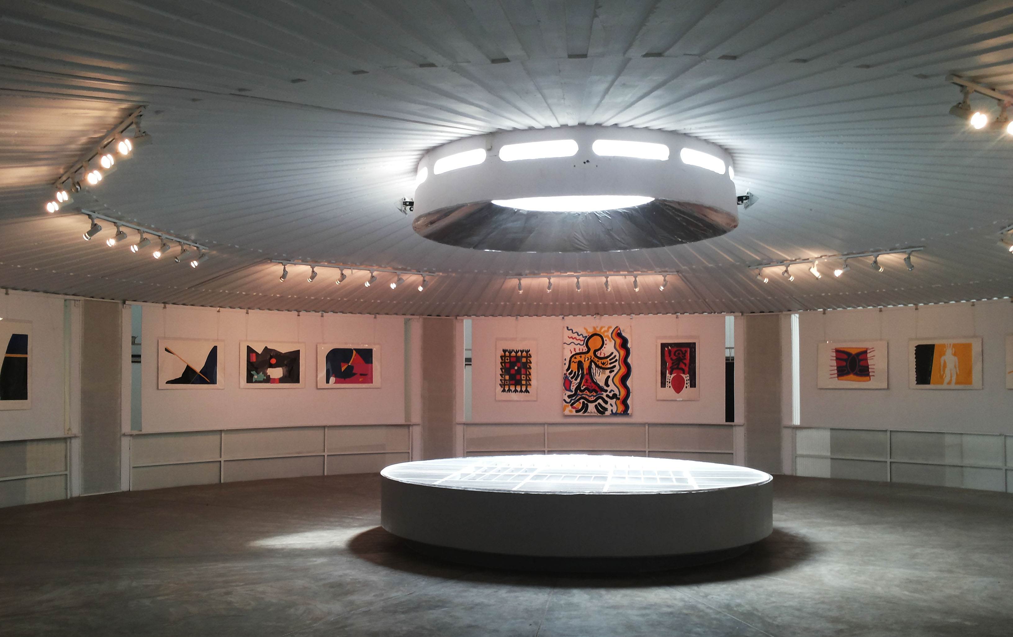 Individual exhibition of Austrian painter Drago Druškovič in Auroville, India, in 2014. (Kalakendra)